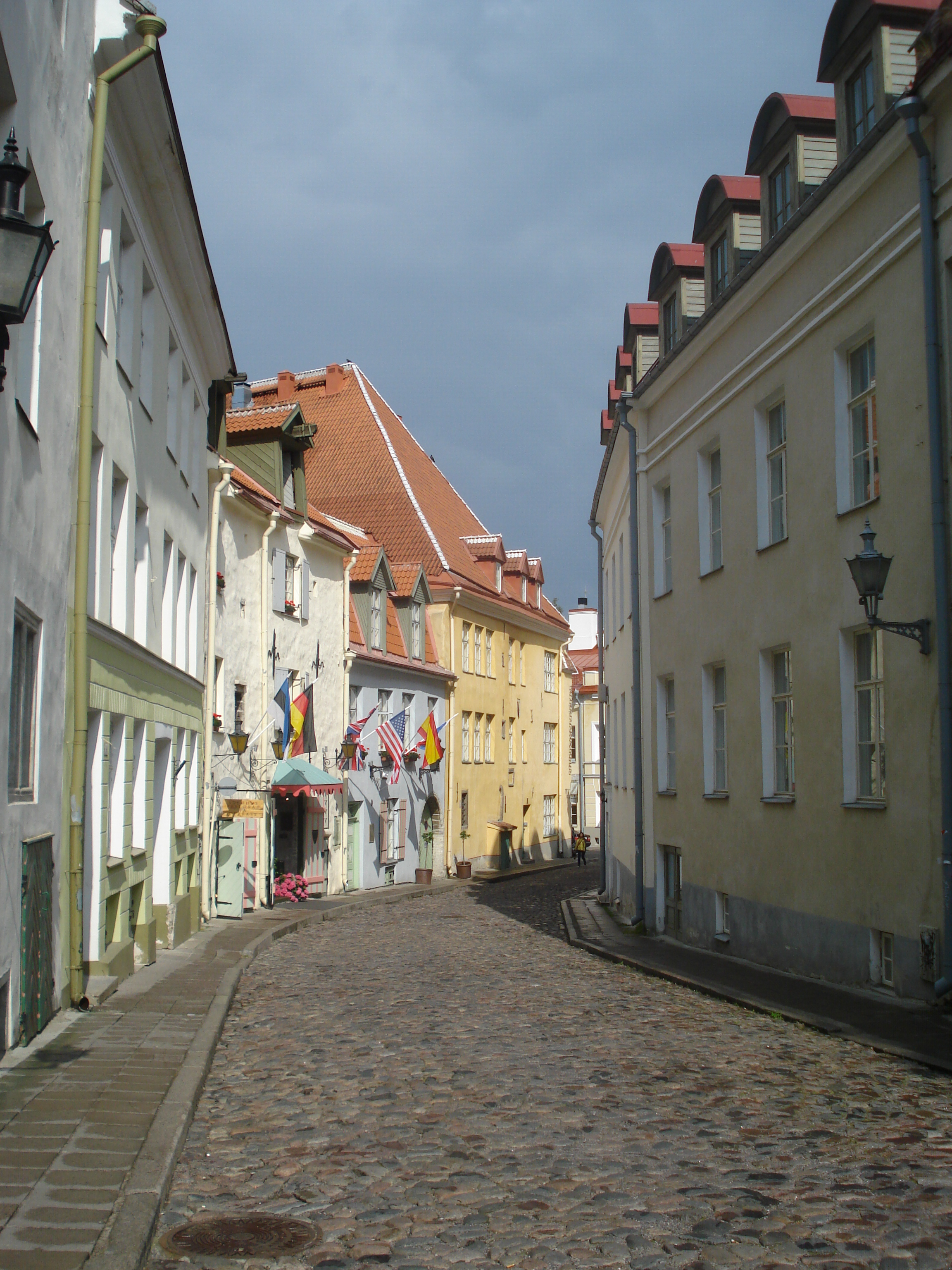 Pühavaimu street in Tallinn